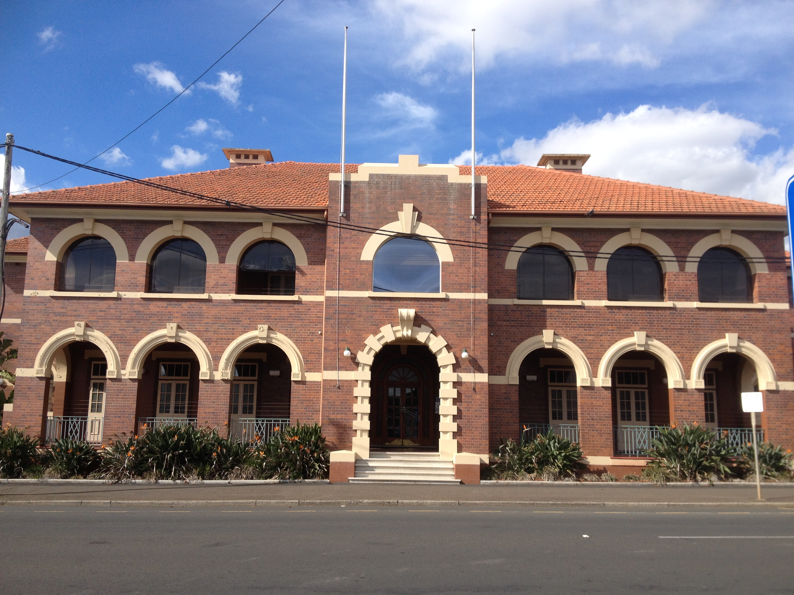 Toowoomba Police Station Complex, Southern Regional Headquarters, 50 Neil St, Toowoomba, Queensland, Australia